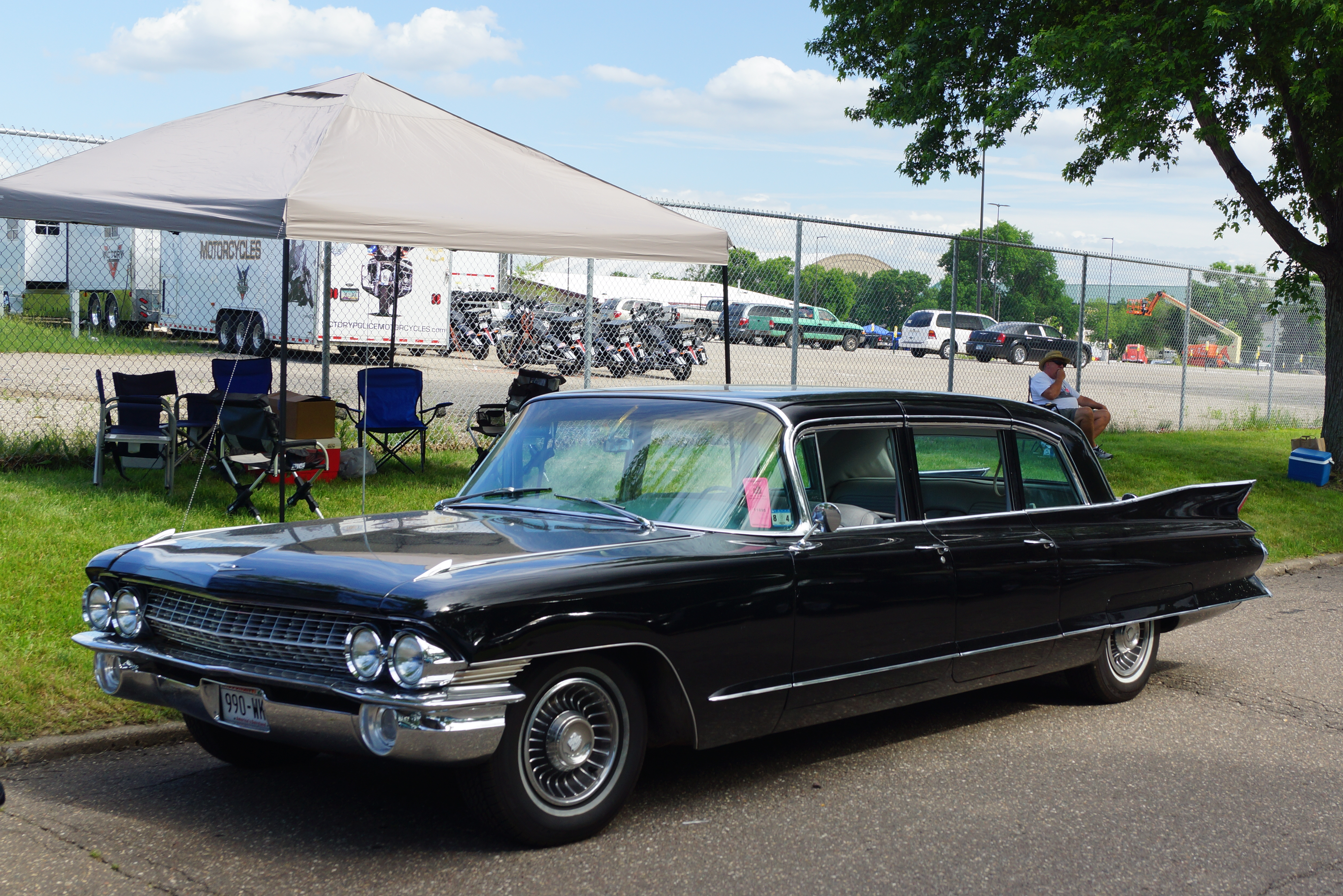 Minnesota Street Rod Association (MSRA) “BACK TO THE 50′s” 43nd Annual Car Show June 17-19, 2016 State Fairgrounds St. Paul, Minnesota Click here for more car pictures at my Flickr site. Also on Tumblr